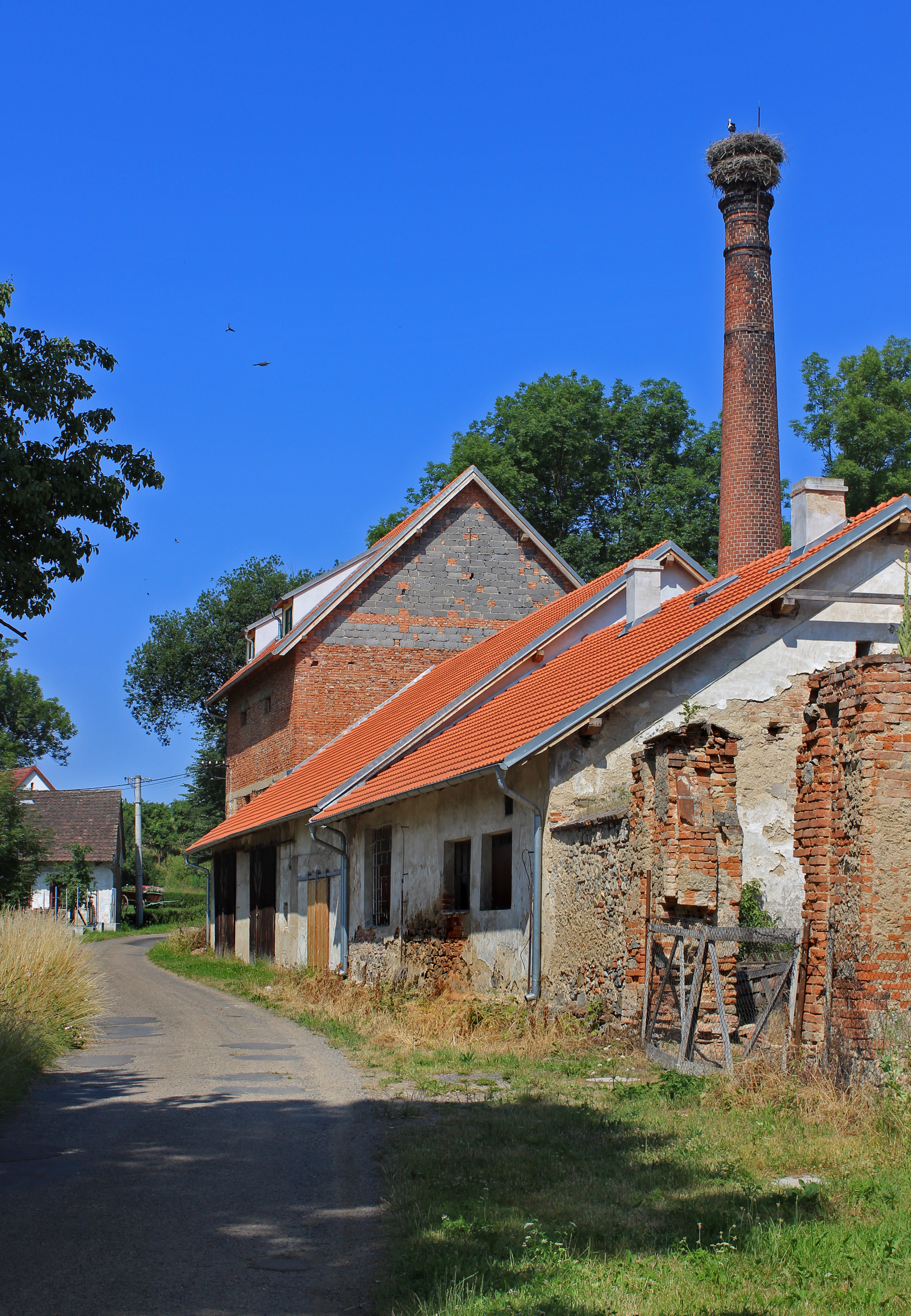 Old distillery in Třebešice, Czech Republic.